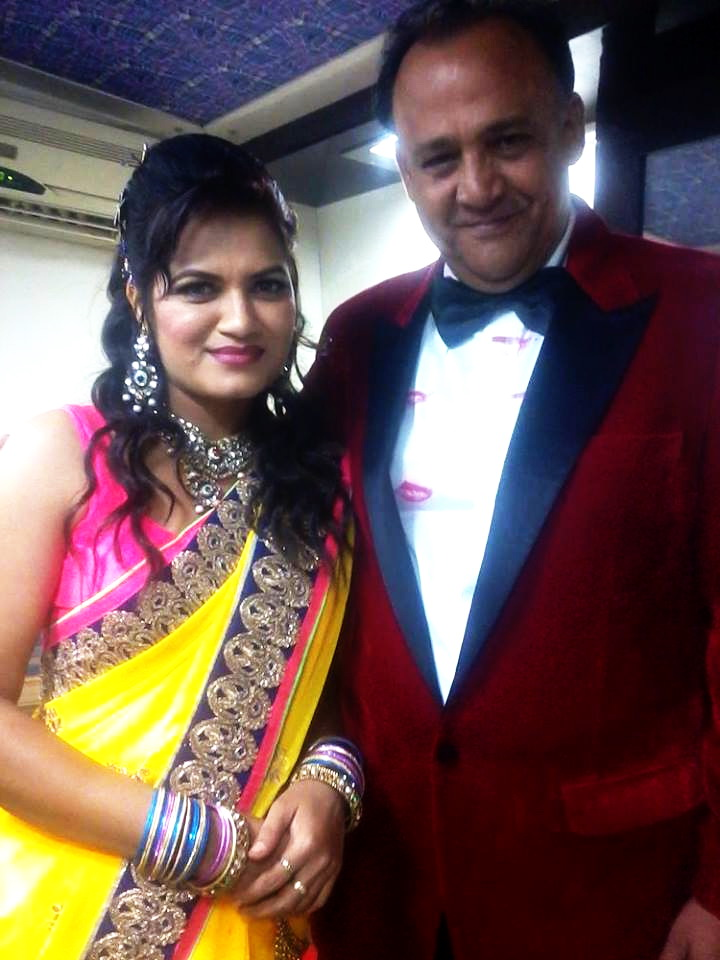 Suman shashi kant with alok nath at Zee Rishtey Award, Nov 2013